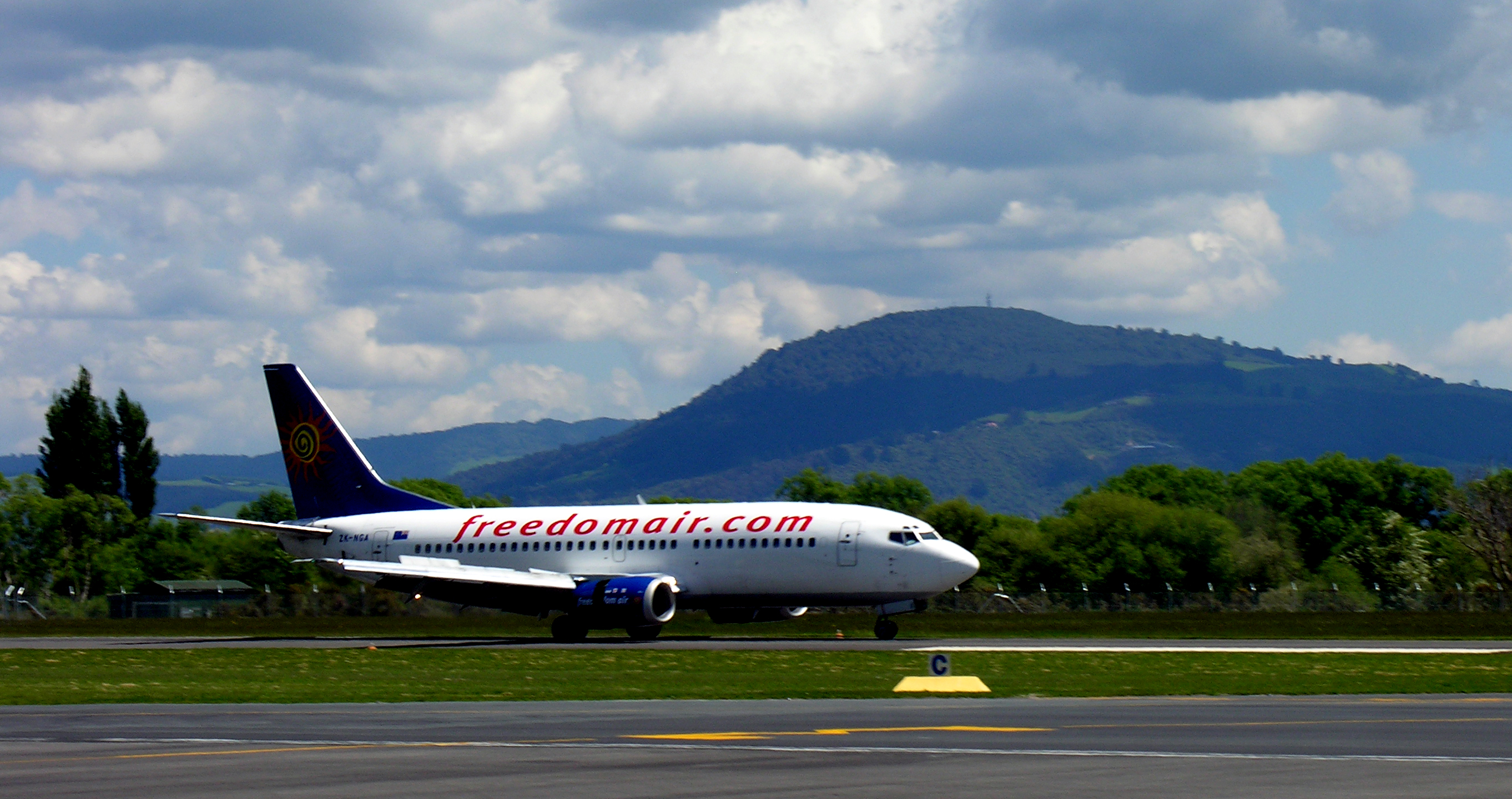 Freedom Air Boeing 737-300 ZK-NGA at Rotorua Airport, New Zealand